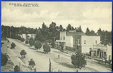 Ocean Ave in Carmel, circa 1908